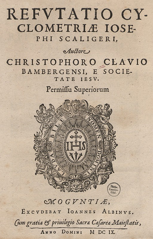 Original image description from the Deutsche FotothekPhilosophie & Mathematik & Jesuiten & Wappen